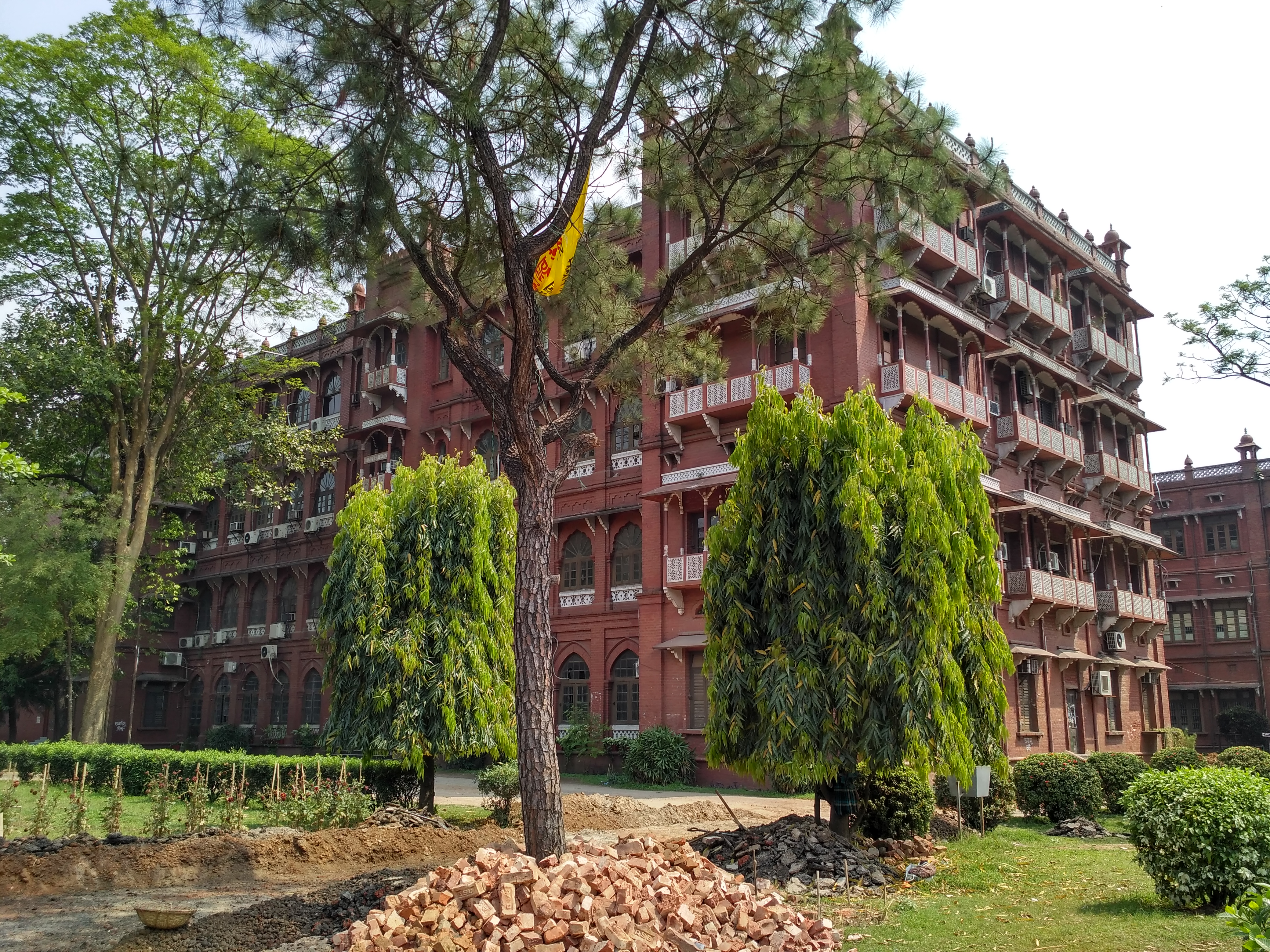 Building of faculty of Pharmacy, University of Dhaka at Curzon hall area, Dhaka. (29.03.2019)